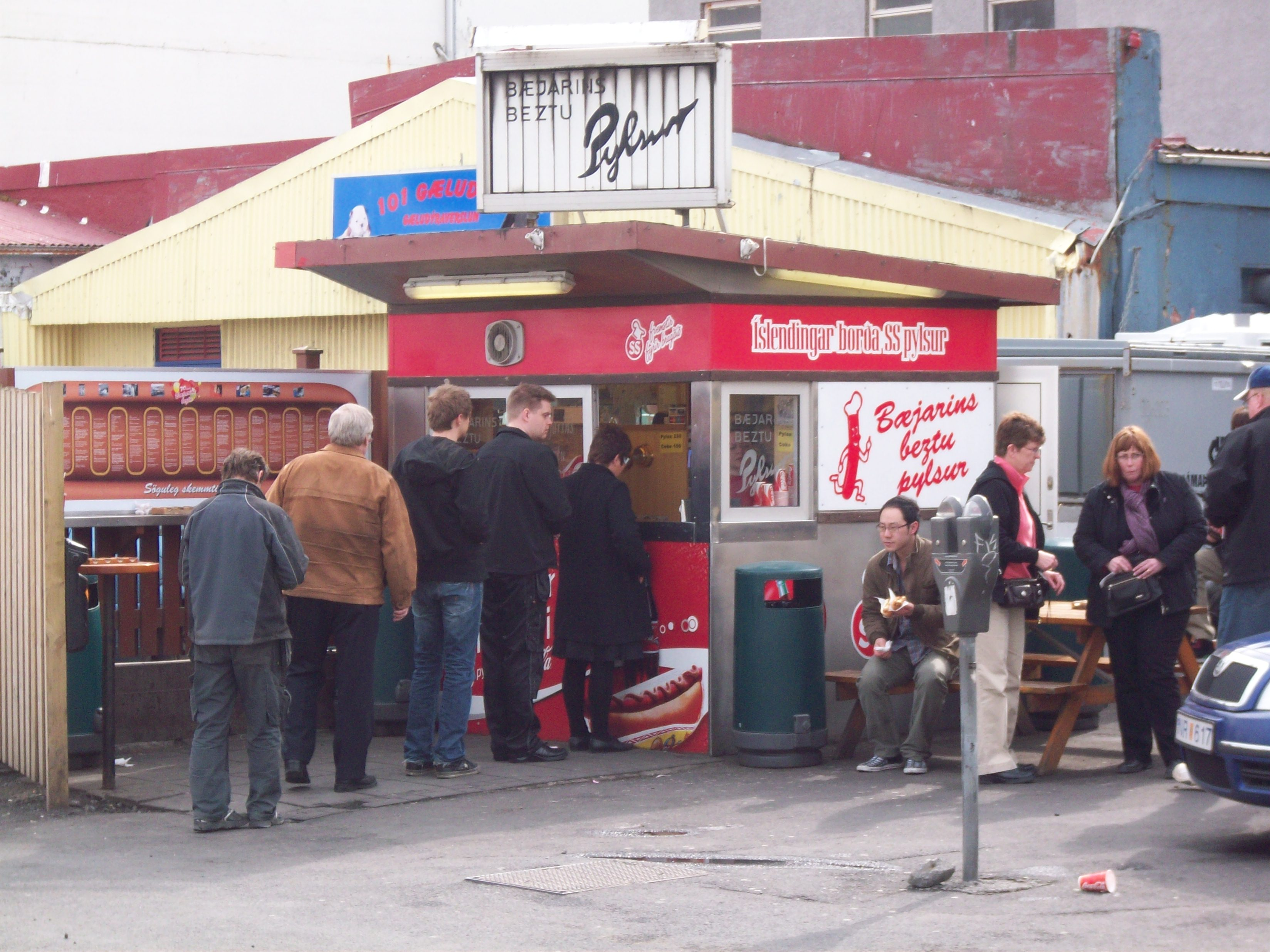 Bæjarins bestu